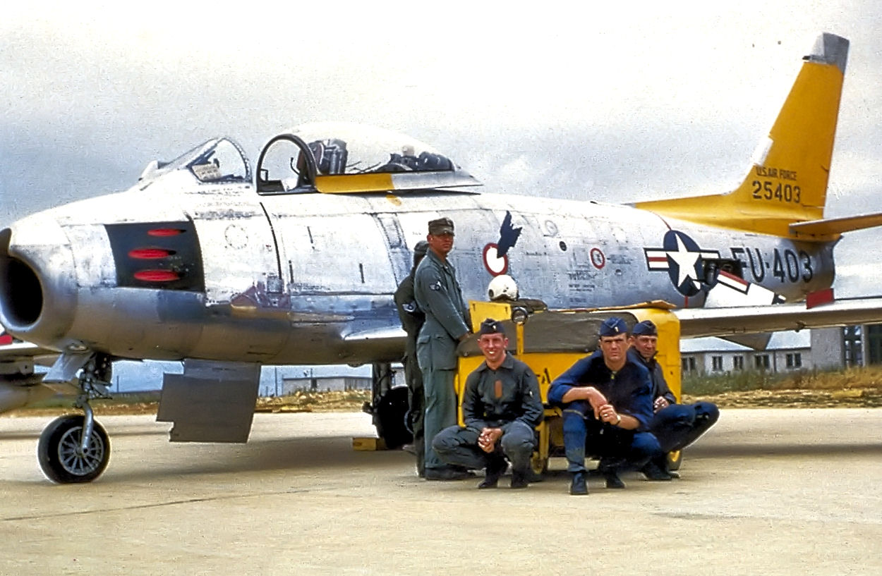 493d Fighter Squadron - North American F-86F-25-NH Sabre - 52-5403